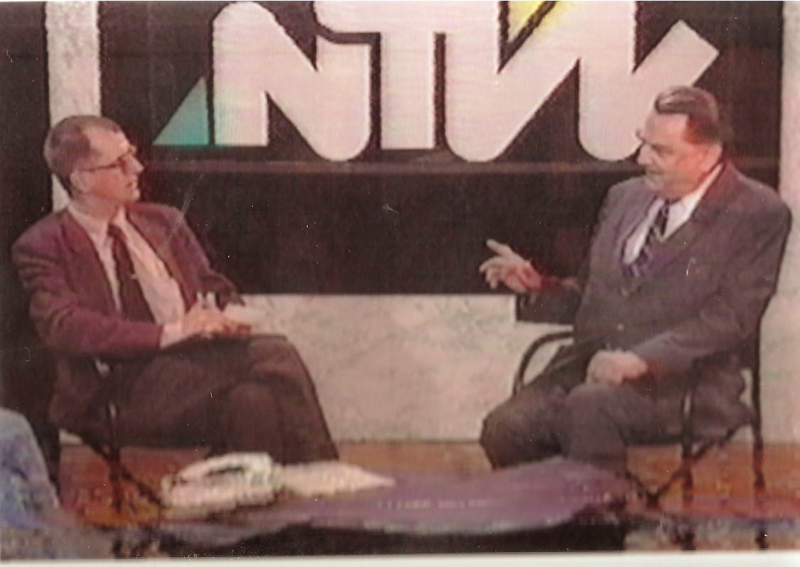 A.T.Kijowski's Talk Show whith Jan Olszewski